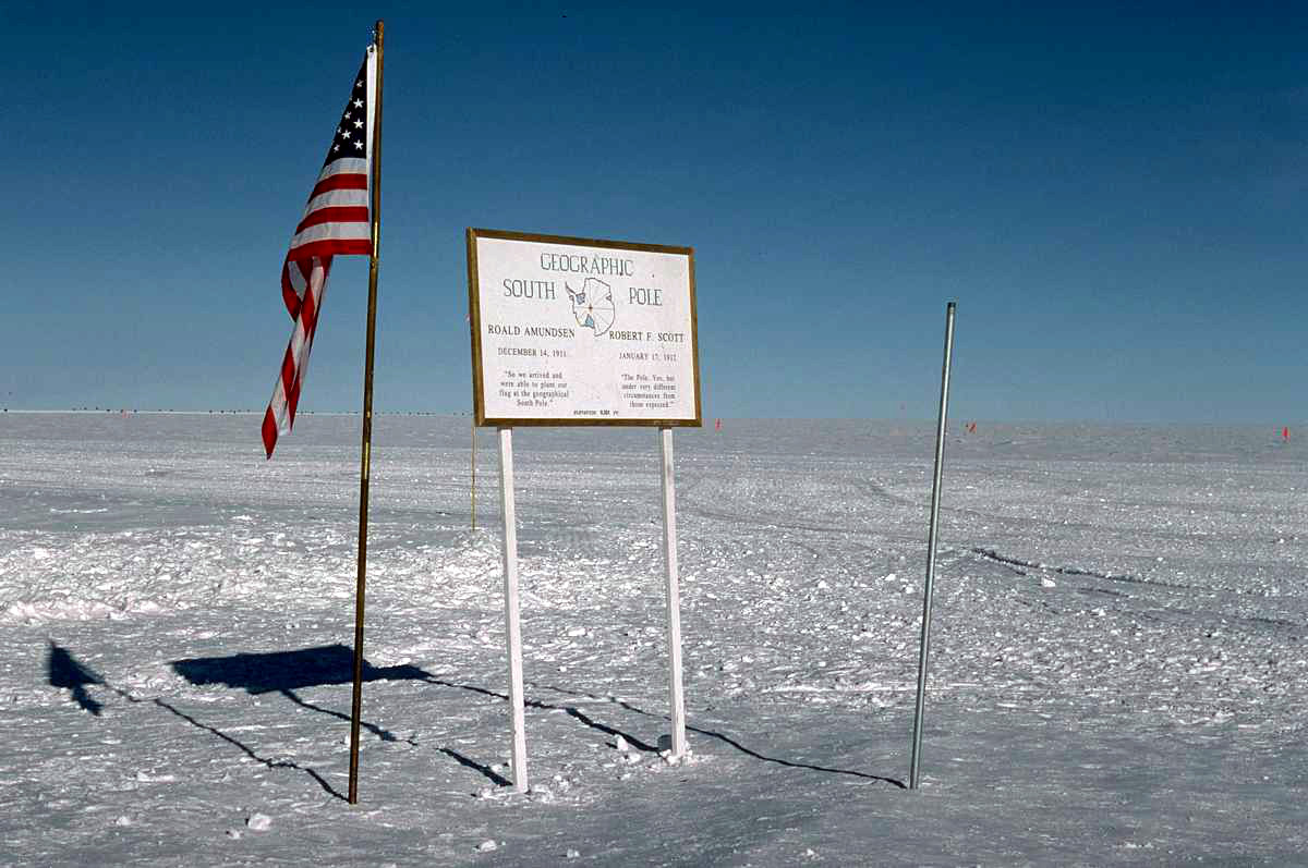 Geographic Southpole